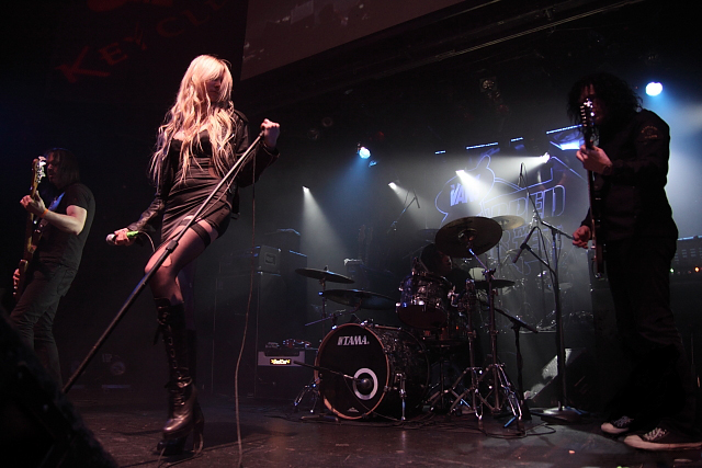 The Pretty Reckless in concert at the Warped Tour Kickoff Party at the Key Club, Sunset Strip, West Hollywood, CA